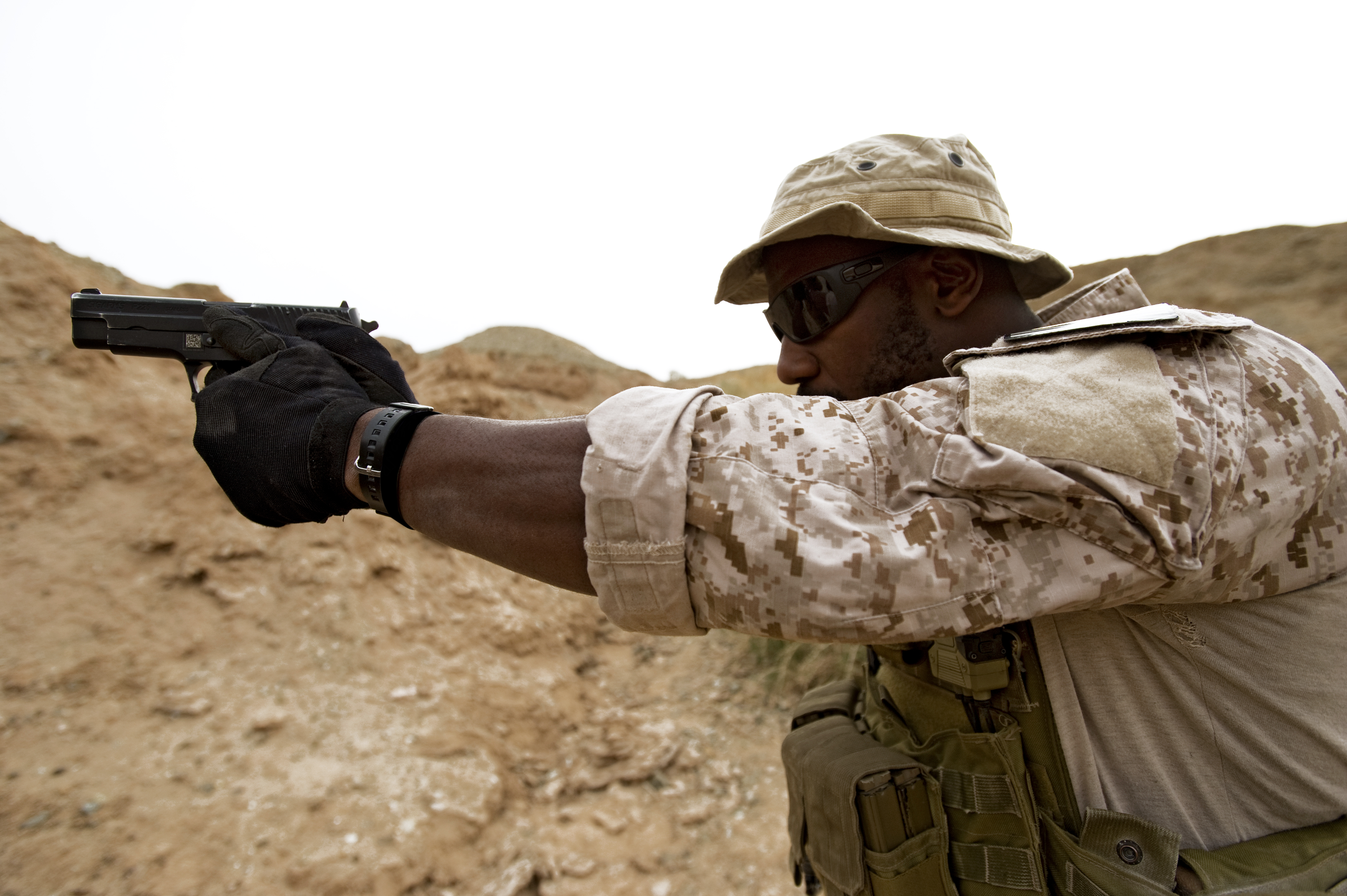 California (11 Jan. 2012) Navy SEALs conduct training in a remote area. U.S. Navy photo by Mass Communication Specialist 2nd Class Martin L. Carey